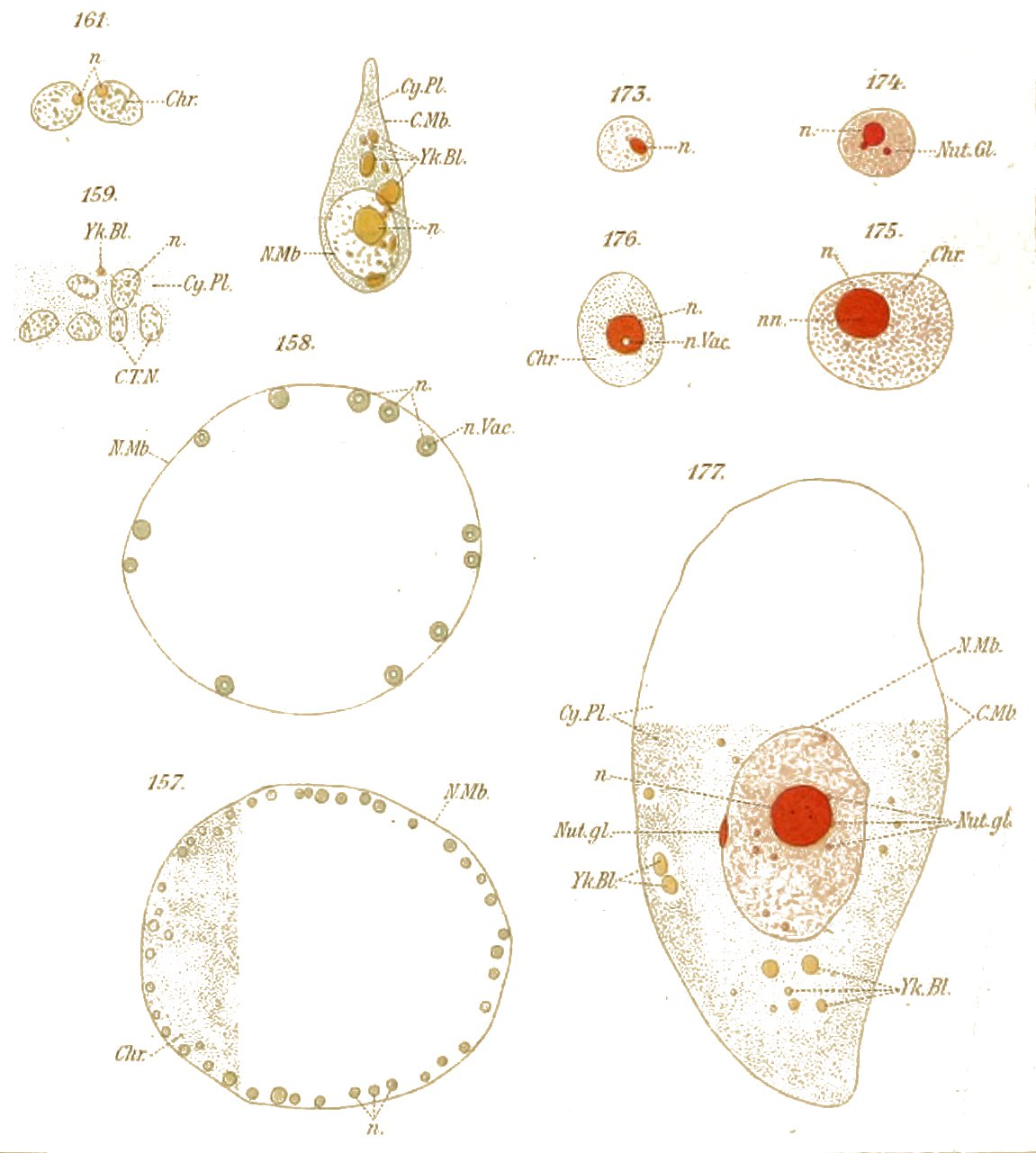 Egg development of Lineus gesserensis Fig. 160. Ovum Figs. 161 and 162. Germinal vesicles (as in 159). Fig. 163. Group of neighboring nuclei from a gonad, showing mitotic stages (aq. sol. sublimate ; Del. haematoxyUn, 20 min. ; eosin, 5 min.). Figs. 164-172. Nuclei from gonads (as in 163). Figs. 173-176. Germinal vesicles (as in 163). Fig. 177. The largest ovum found, only a part of the cytoplasm drawn (as in 163).